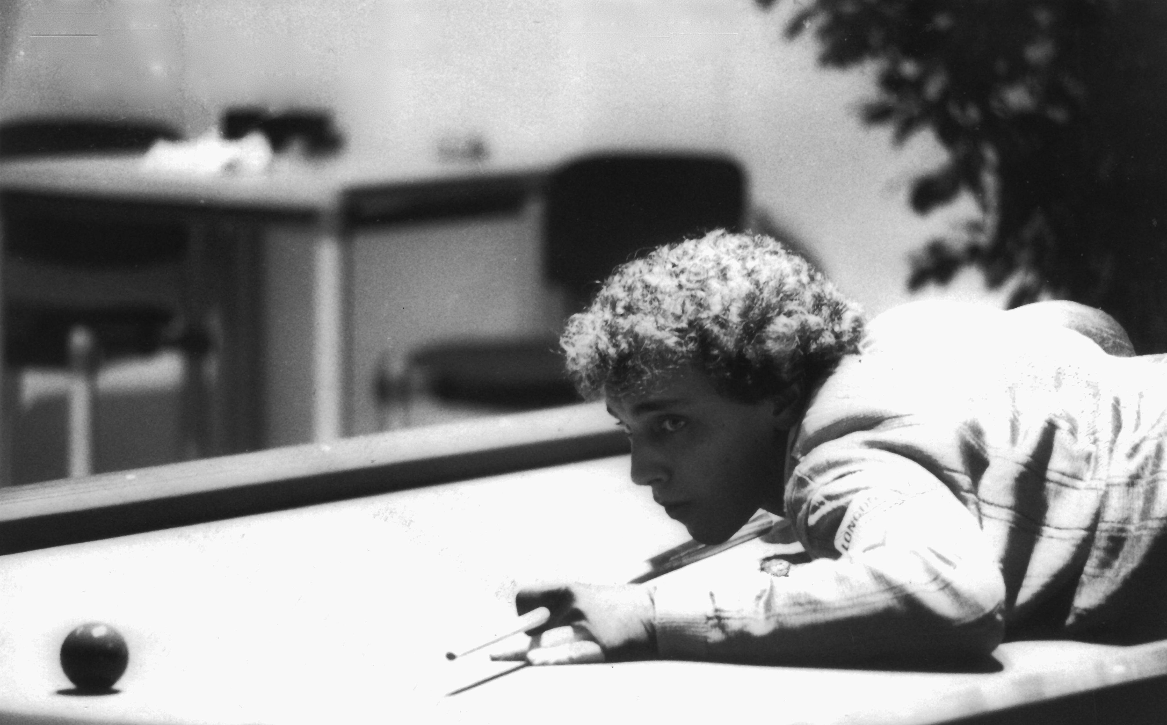 1986 One-cushion european championship in Dülmen, Germany. Marco Zanetti